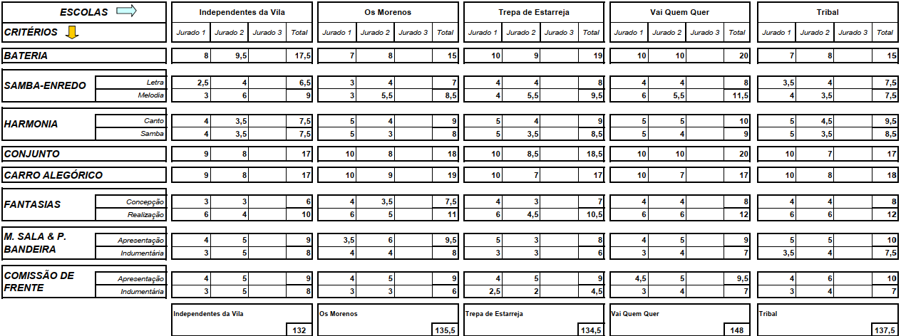 Results of Carnival of Estarreja in 2014